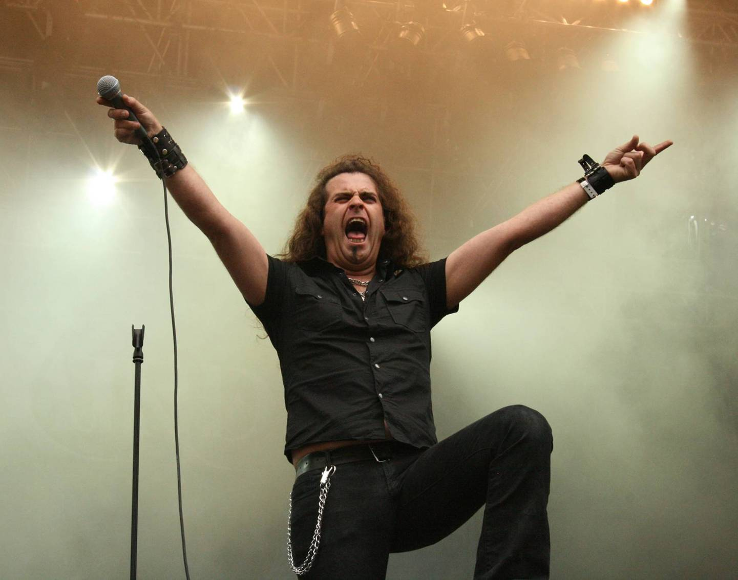 Pagans Mind at Norway Rock Festival 2008